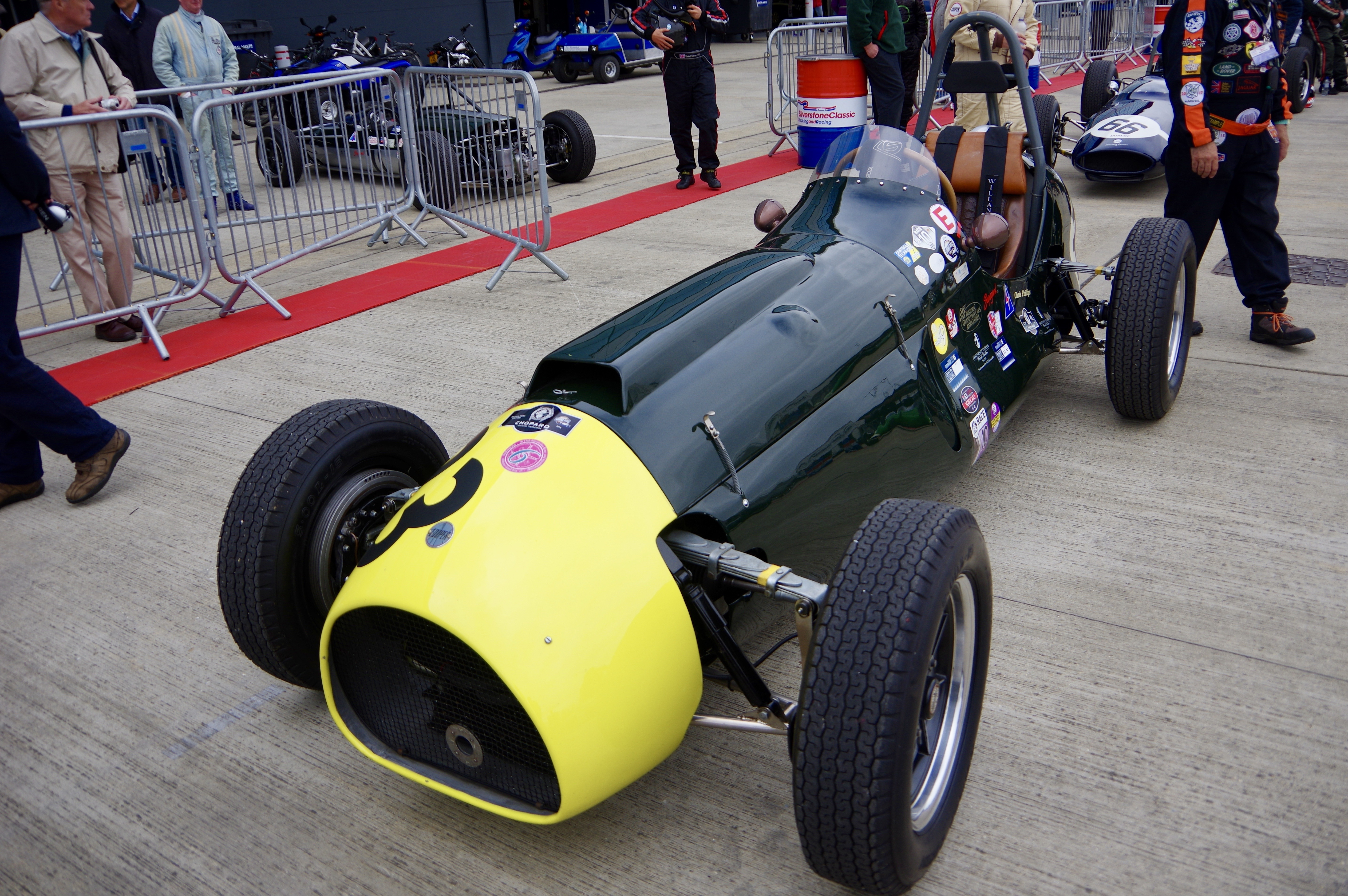 Cooper T23 2017 Silverstone Classic.